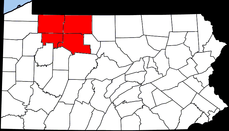 altered version of (Public domain map courtesy of The General Libraries, The University of Texas at Austin, modified to show counties relevant to article. Released under GFDL. See Wikipedia:U.S. county maps.)